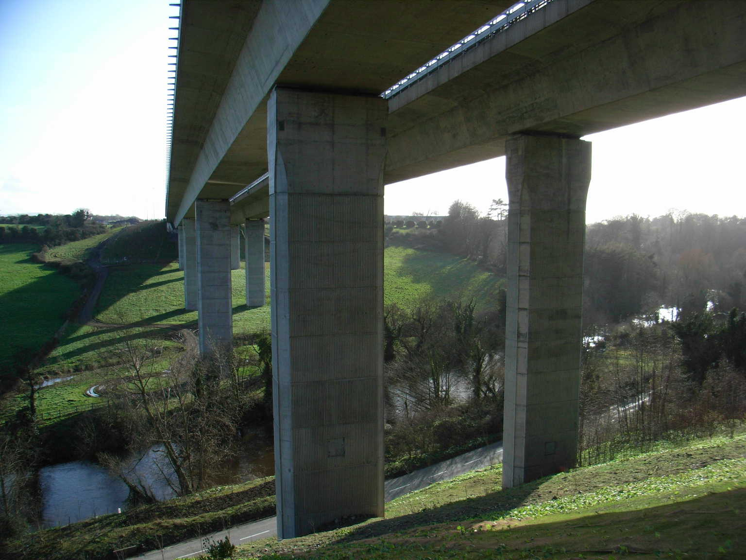 Westlink Bridges, Dublin, Ireland. The twin Westlink bridges from underneath. The bridges carry the M50 Dublin orbital motorway over the River Liffey at Strawberry Beds. The western one was opened in 1990 and the other was added in 2003. They are 385m long and stand around 42m above the Liffey.